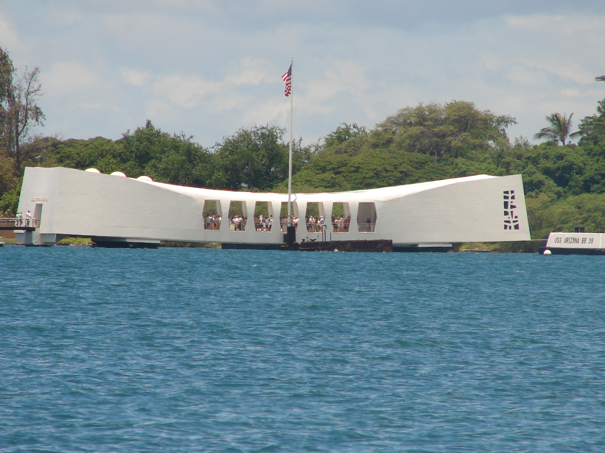 The USS Arizona memorial, Pearl Harbour, Hawaii. Taken by me on 11-07-2007.